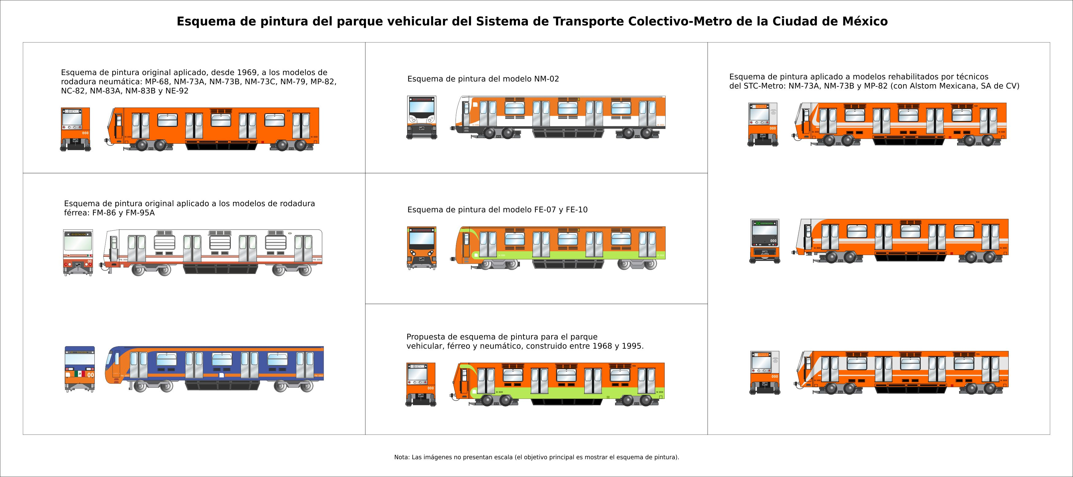 Paint scheme from rolling stock from Mexico City's subway